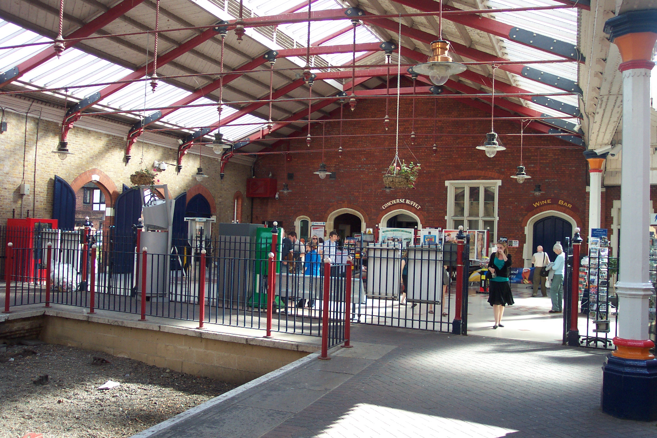 The concourse of Windsor and Eton Riverside railway station. For more information see the Wikipedia article Windsor and Eton Riverside railway station.